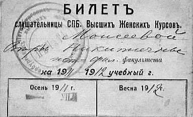 A card of Bestuzhev's courses student